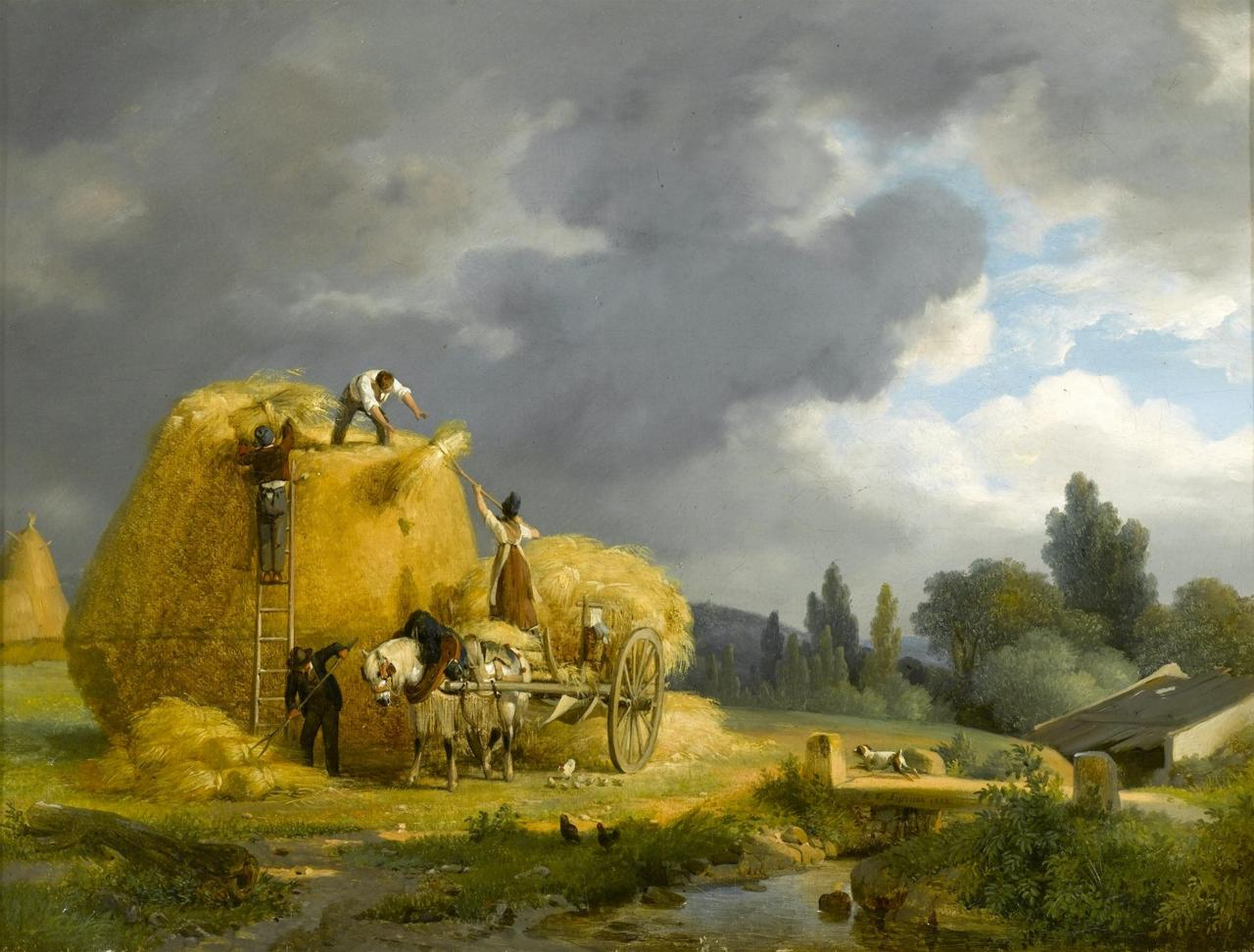 The Harvest